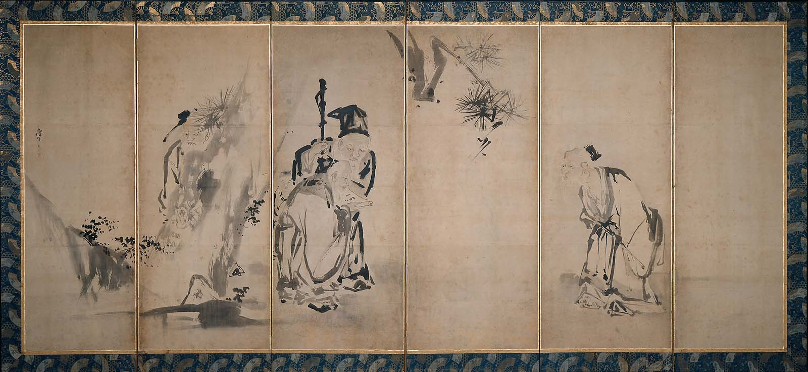 One of a pair of byōbu folding screen painting by the Japanese painter Kanō Naonobu (1607–1650) of the Kanō school of painting. It depicts the The Four Sages of Mount Shang (商山四皓). Ink on paper.